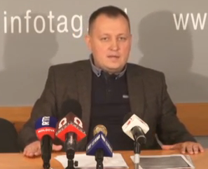 Moldovan politician Grigore Petrenco